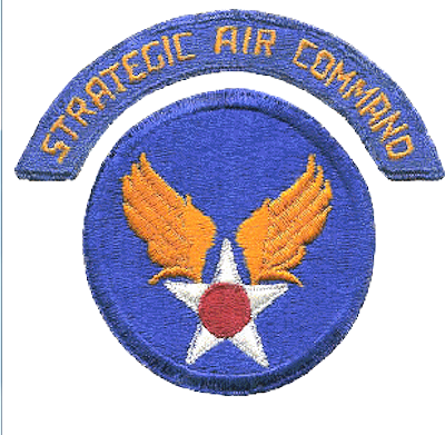 A copy of this emblem was down loaded from for use in my book “STRATEGIC AIR COMMAND An Organizational History” with the permisasion and approval of Marvin T. Broyhill. Webmaster.